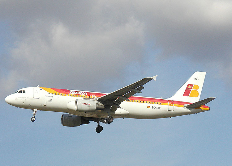 Airbus A320-214 of Iberia (EC-HDL) on the approach to London (Heathrow) Airport.